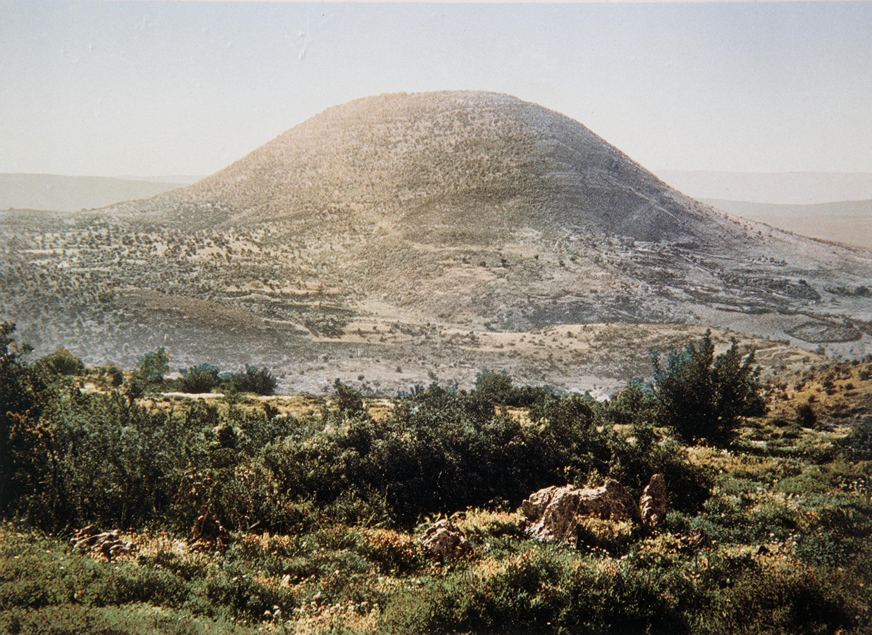 COLOR PHOTO OF MOUNT TABOR TAKEN IN THE LATE 19TH CENTURY BY FRENCH PHOTOGRAPHER, BONFILS. צילום צבע מסוף המאה ה19 של הצלם הצרפתי בונפיס אשר תעד במצלמתו את נופי ארץ ישראל ותושביה. בצילום, הר התבור.